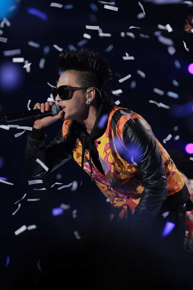 Taeyang in K-Collection fashion show 2012